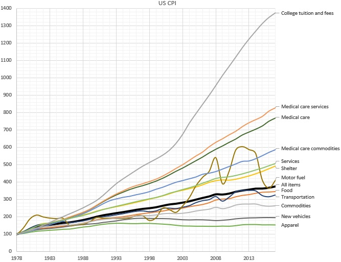 US CPI 1978-2017 for: CUUR0000SA0 All items CUUR0000SEEB01 College tuition and fees CUUR0000SAF1 Food CUUR0000SAH1 Shelter CUUR0000SAA Apparel CUUR0000SAT Transportation CUUR0000SETA01 New vehicles CUUR0000SETB Motor fuel CUUR0000SAM Medical care CUUR0000SAM1 Medical care commodities CUUR0000SAM2 Medical care services CUUR0000SAC Commodities CUUR0000SAS Services